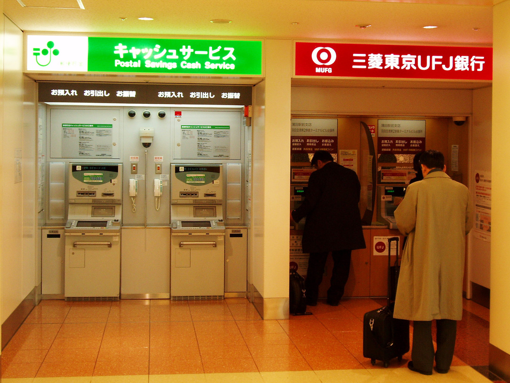 ATMs in Japan (The Bank of Tokyo-Mitsubishi UFJ and Postal Savings)